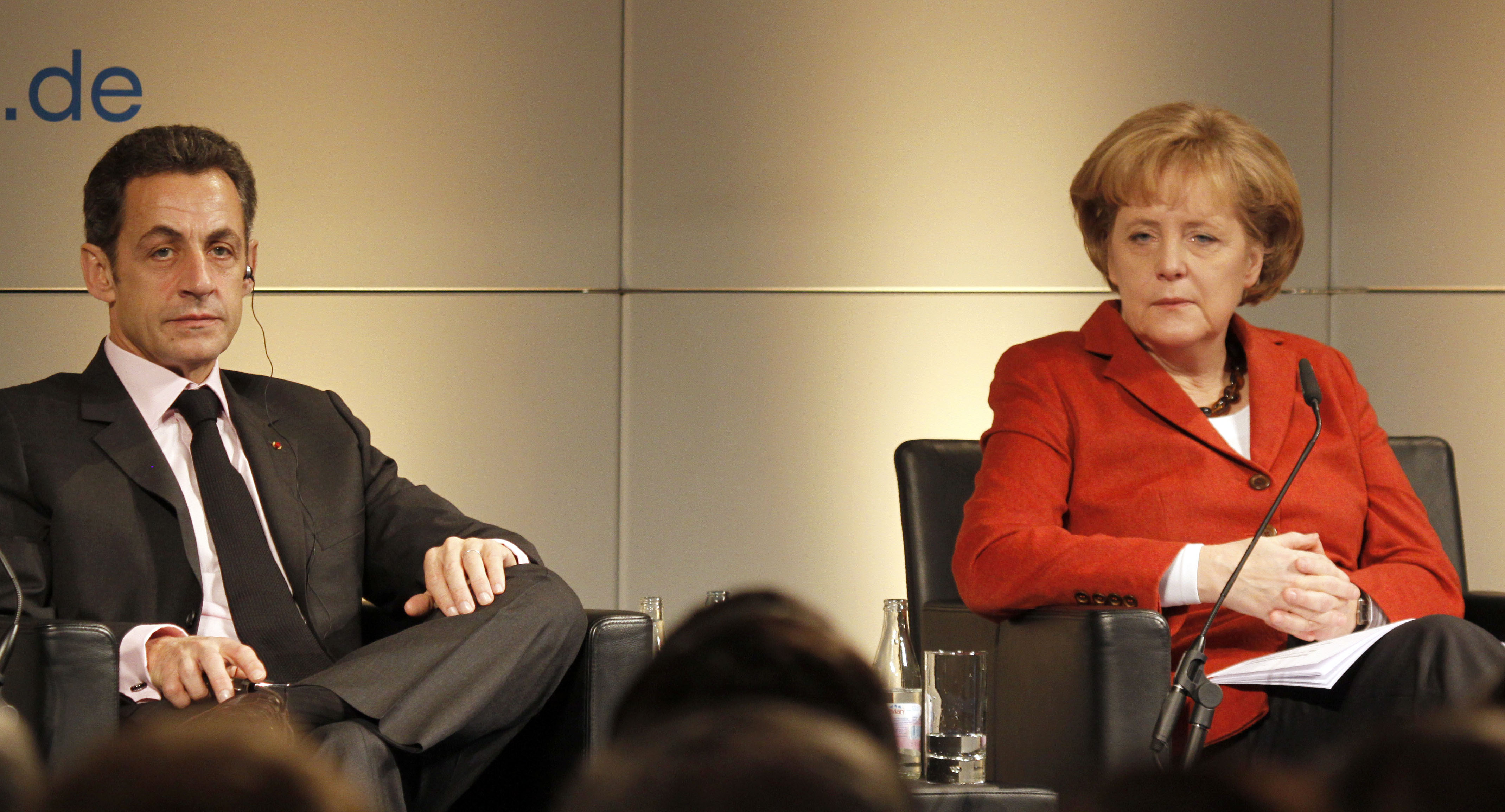 45th Munich Security Conference 2009: Dr. Angela Merkel (rh), Federal Chancellor, Germany, and the French President, Nicolas Sarkozy(le), during the following discussion.